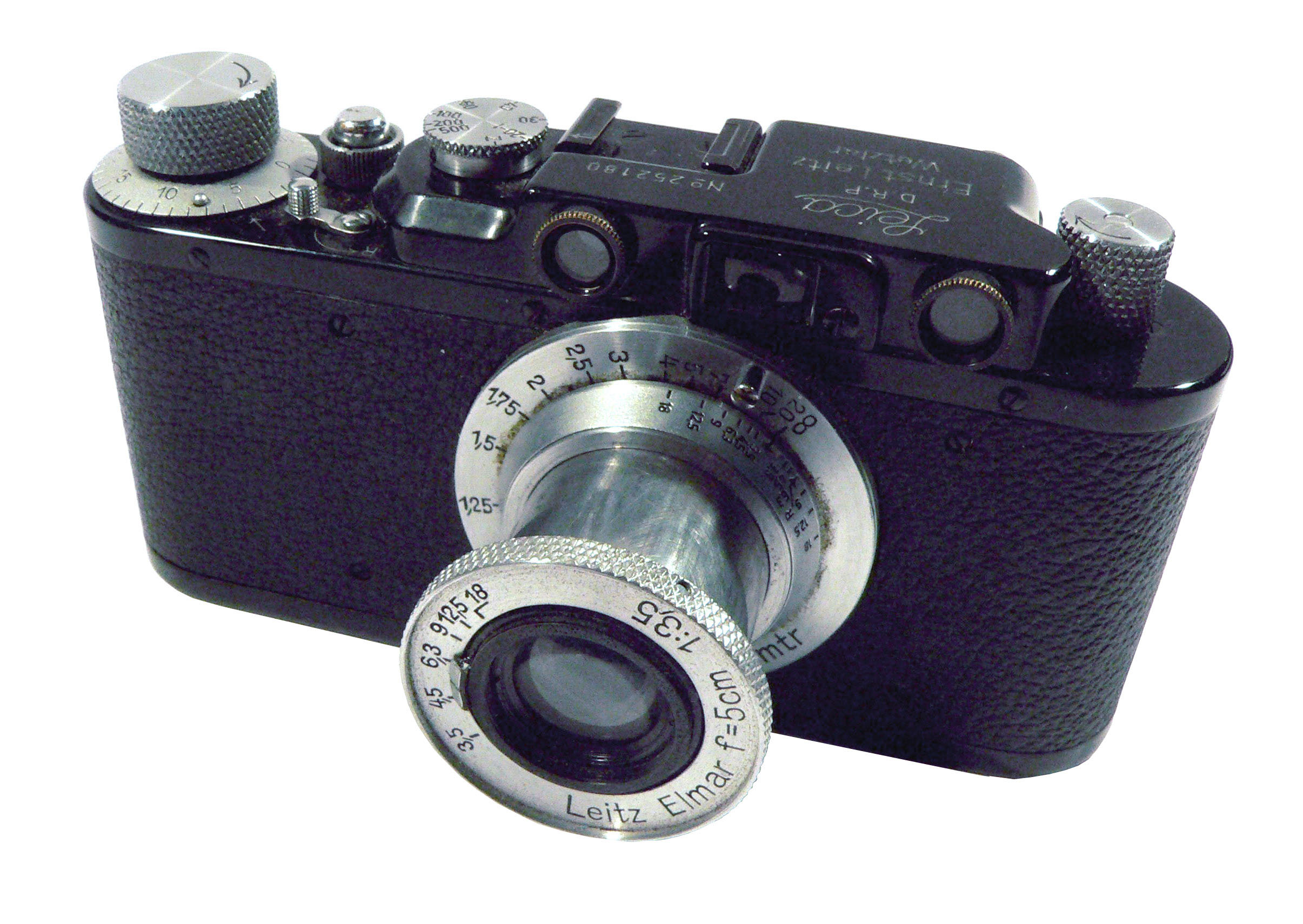 Leica II camera. Serial number 252 180, model from 1937.